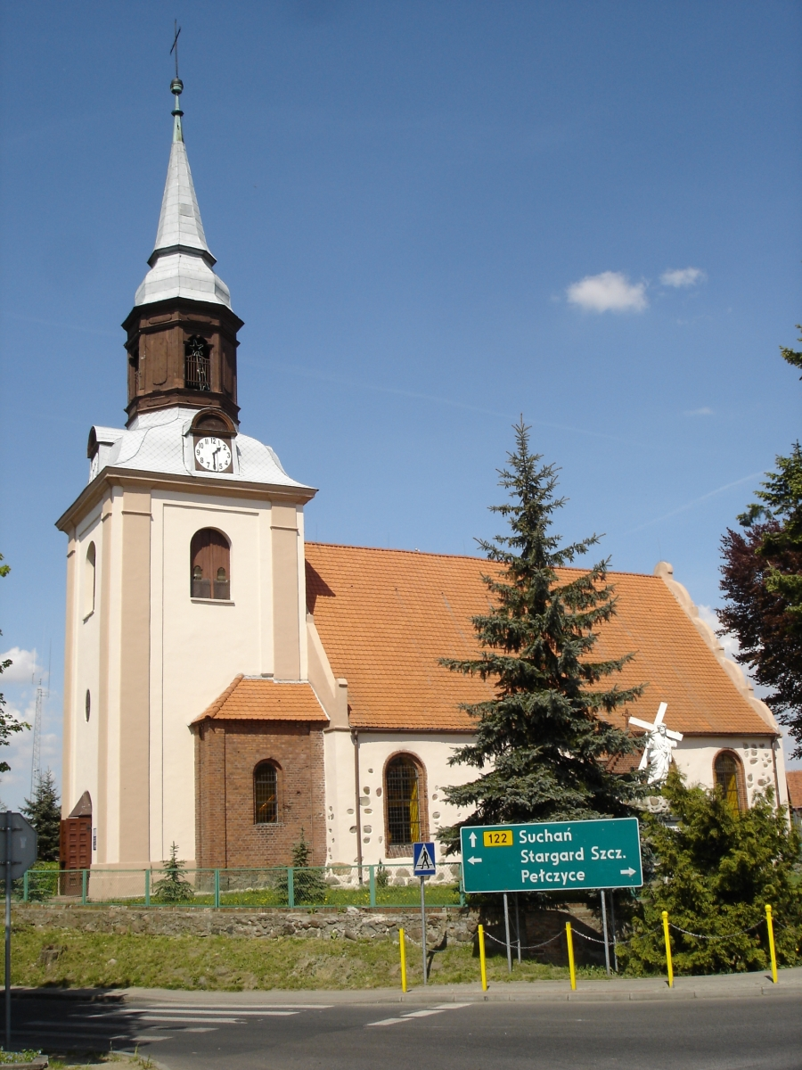 Christ the King church in Dolice (Stargard County), Poland